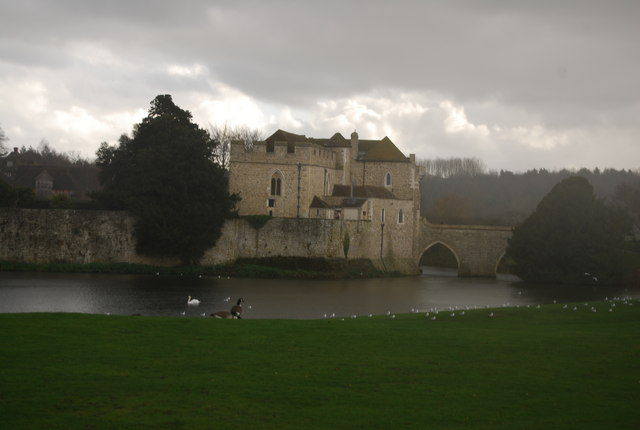 Leeds Castle - Gatehouse Built in the 13th century, & connected to the mainland by a causeway